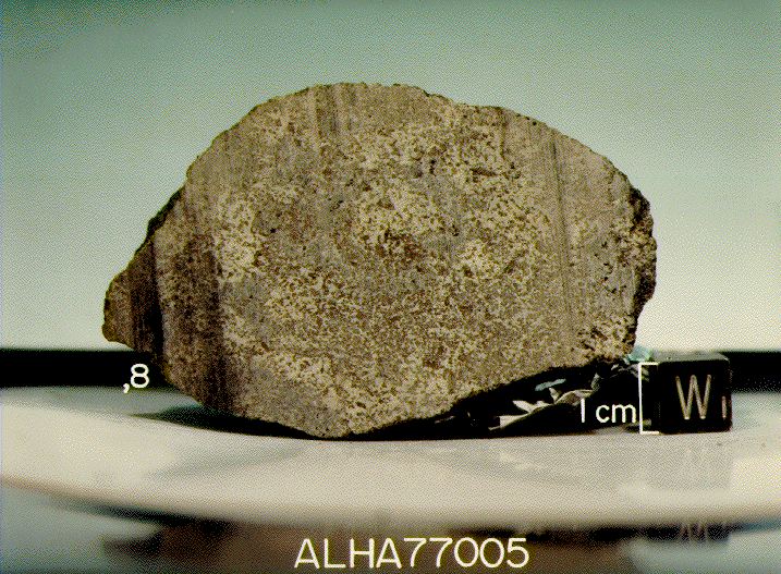 ALHA - Allan Hills 77005 - Interior - Martian Meteorite - Found on Earth in 1977. Interior sawn surface of ALHA 77005 showing its coarse-grained igneoius texture.